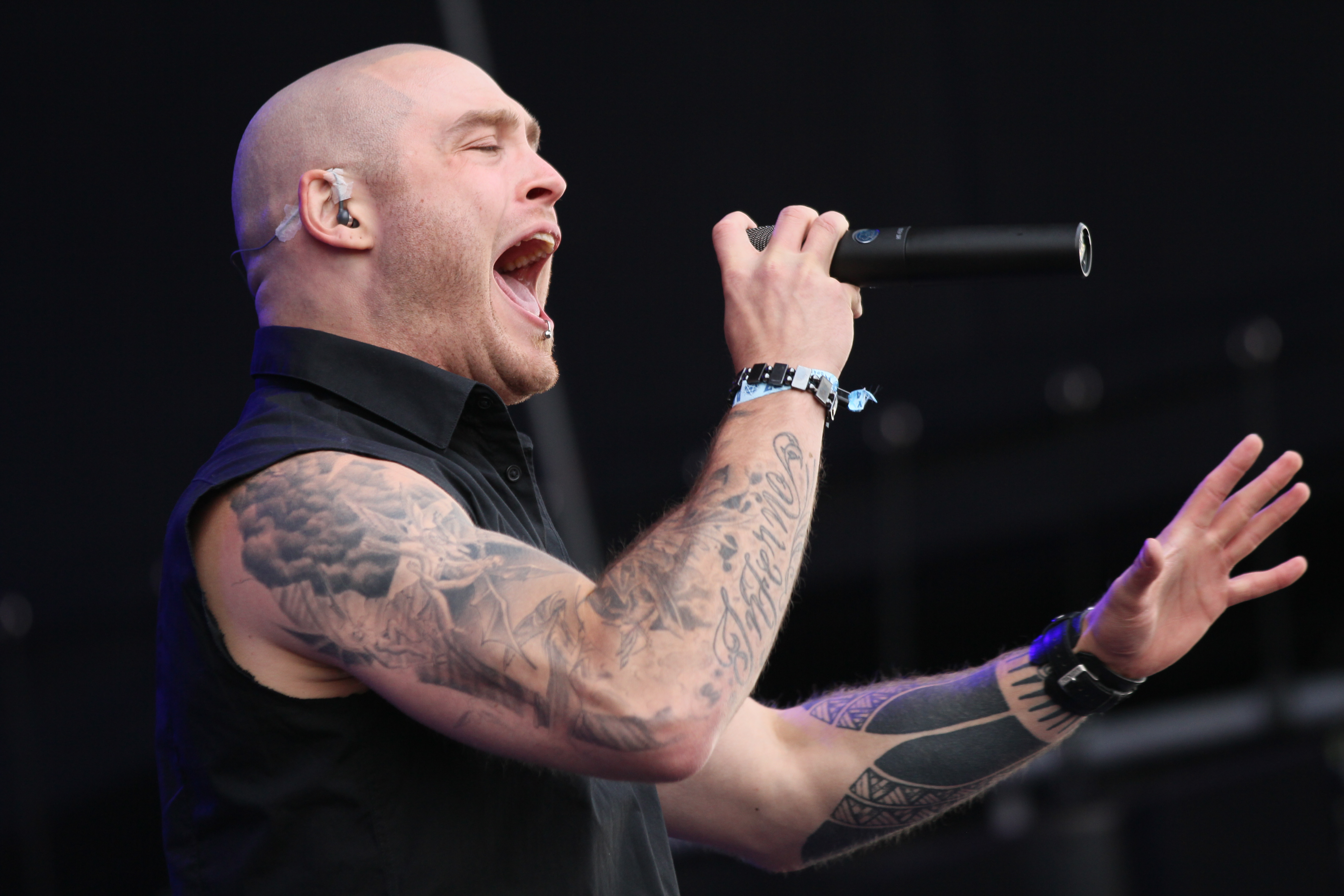 The Swedish metalcore band Sonic Syndicate at the Rockharz Open Air 2014 in Ballenstedt/Germany